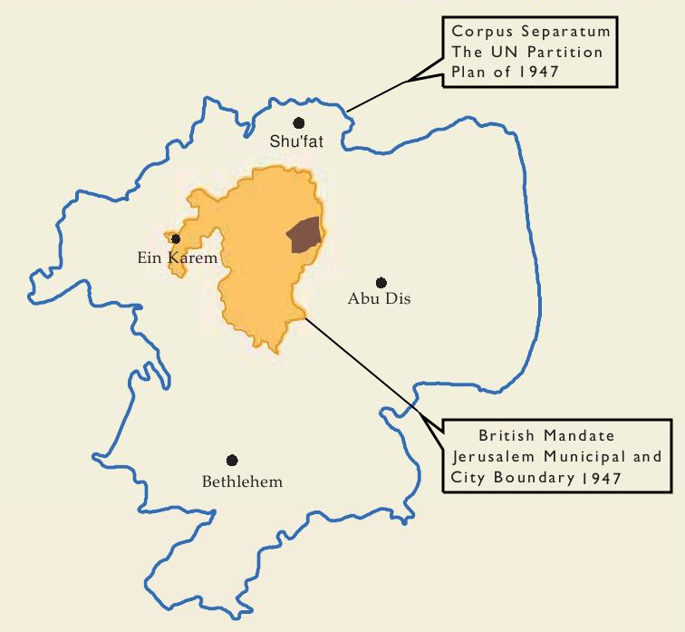 Jerusalem boundary in 1947 during the British Mandate (1920–1948).